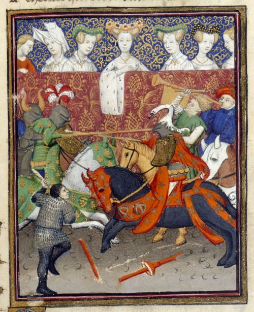 Detail of a miniature of ladies watching knights jousting, from 'Le Duc des vrais amants', Harley MS 4431, f. 150r